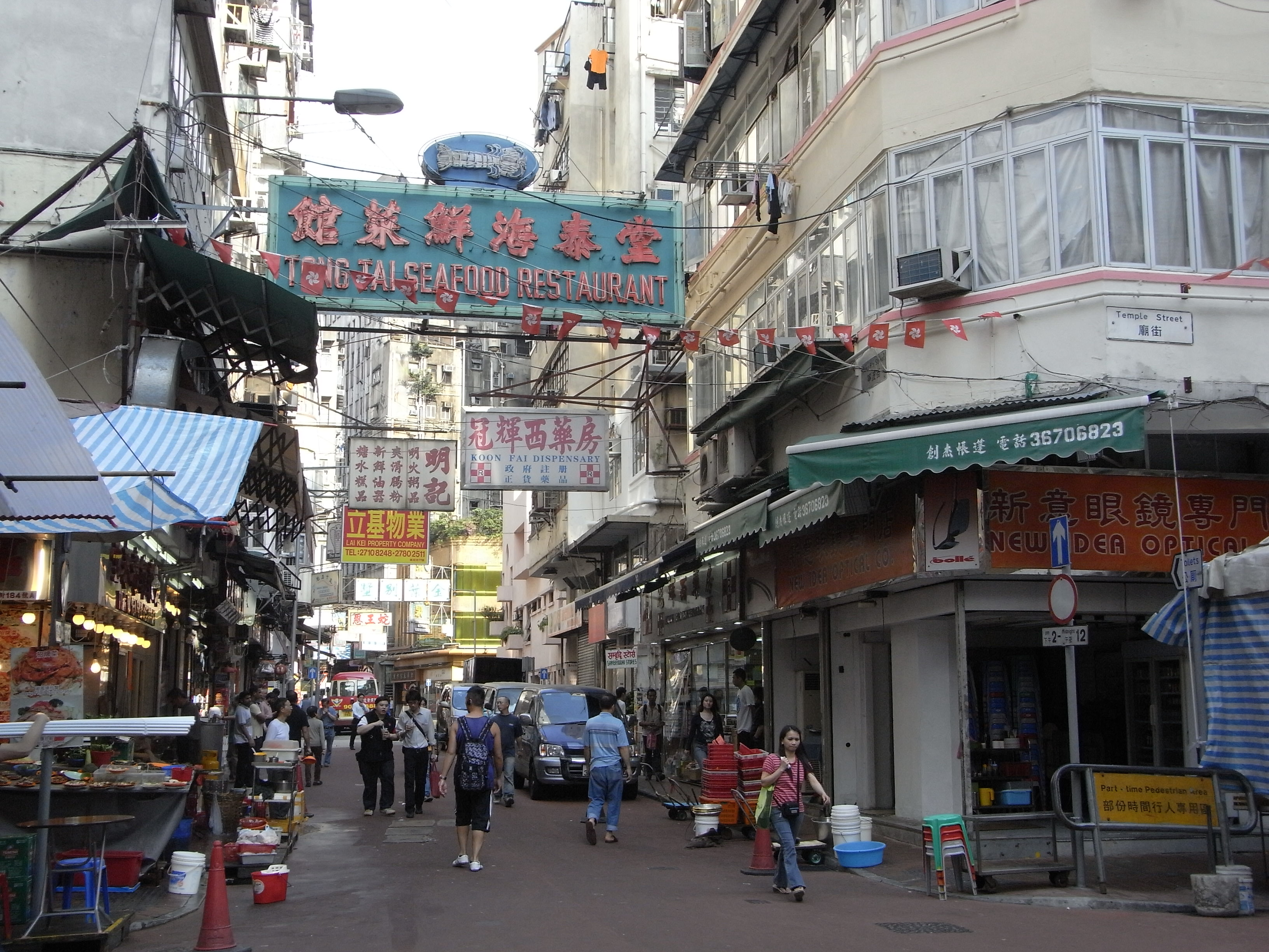 油麻地 寧波街 堂泰海鮮菜館 招牌